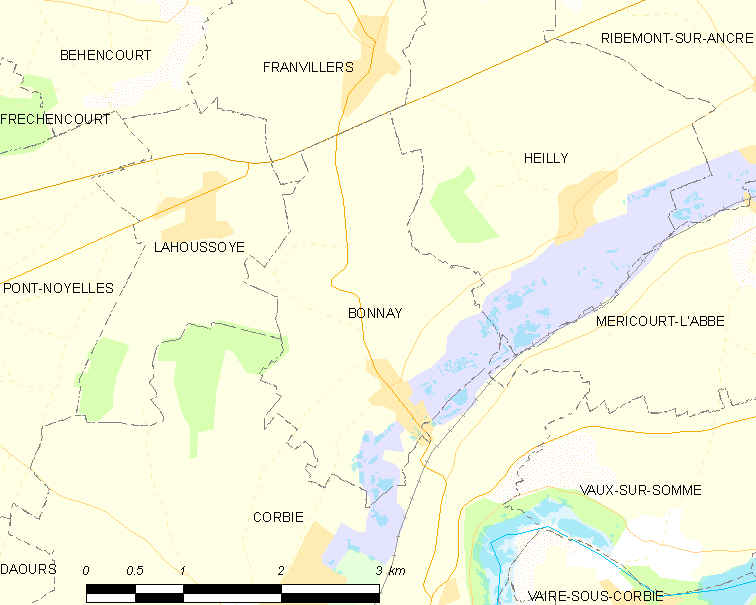 Map of French municipality Bonnay (Somme)